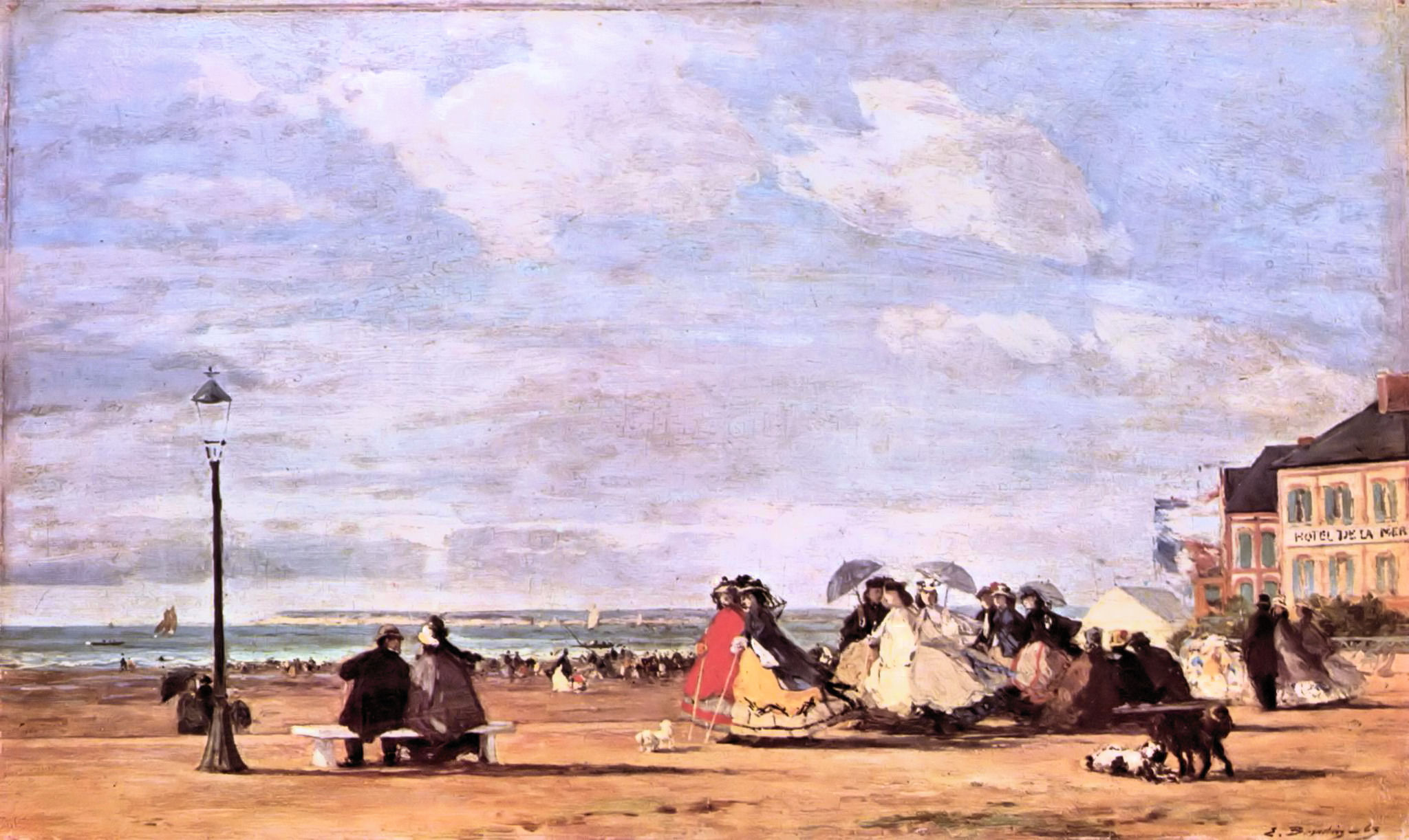 Empress Eugenie, wife and consort to Napoleon III